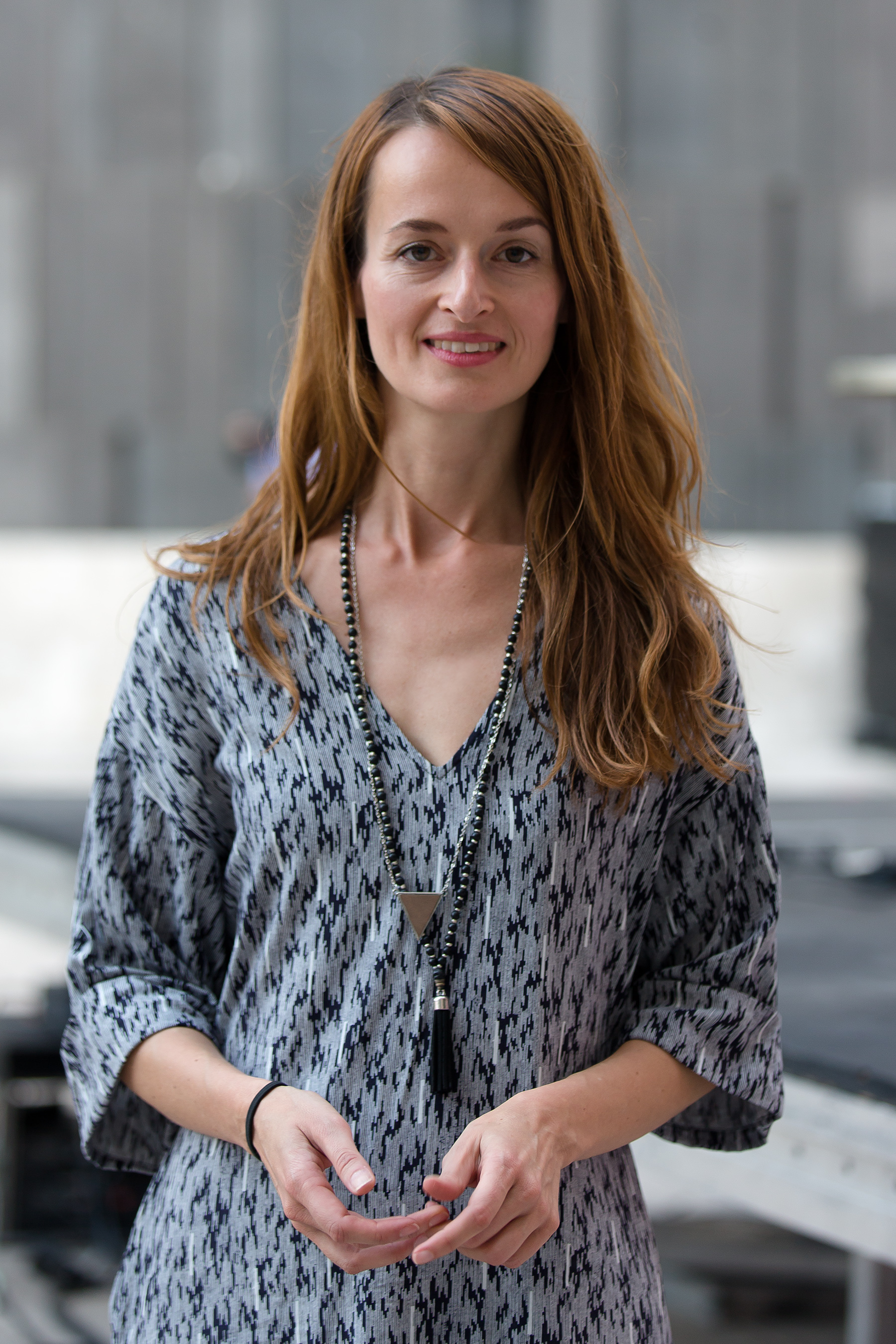 Sandra Gugić at the literary festival o-töne 2015 at Museumsquartier in Vienna, Austria.